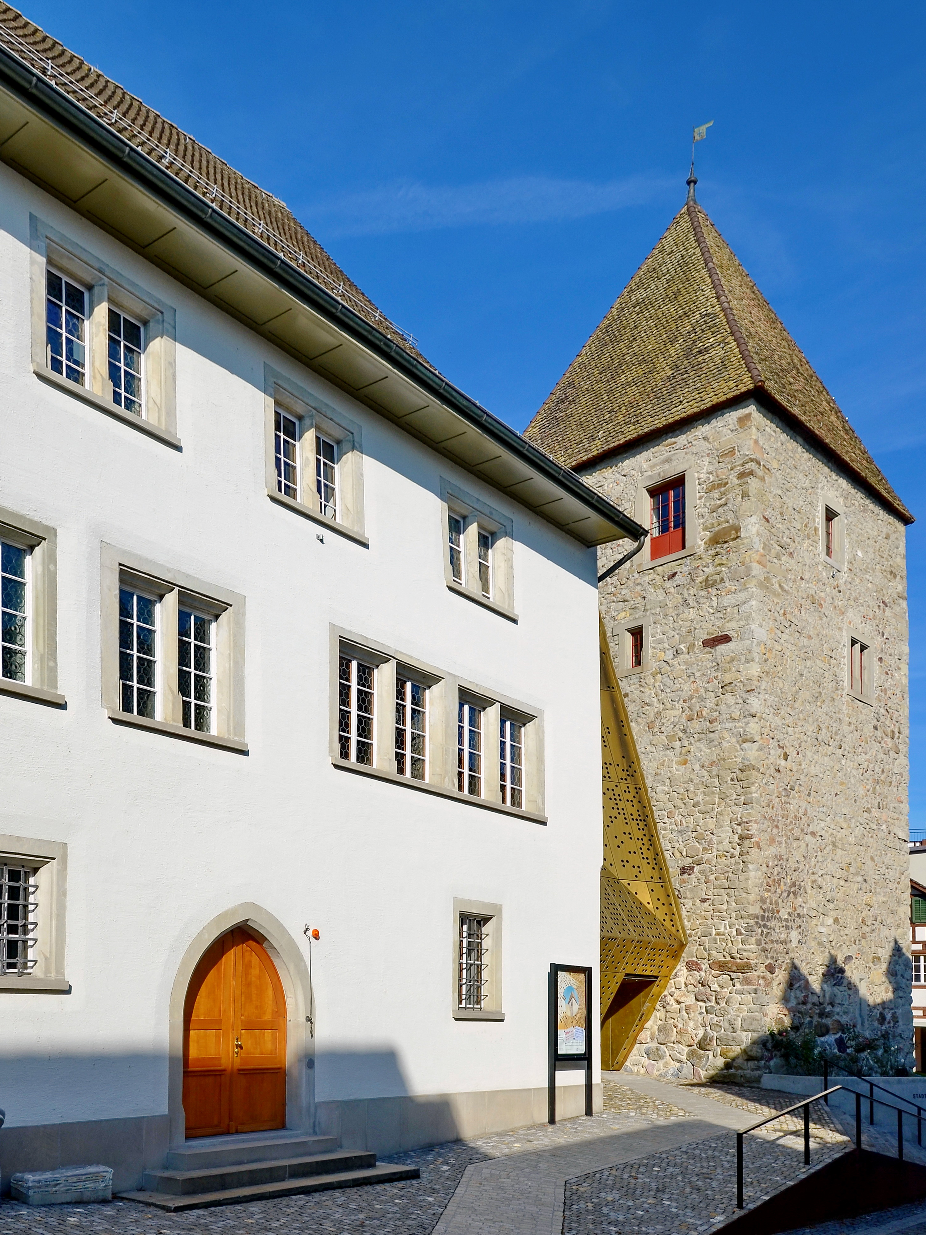 Renewal in 2010/11 (finished in November 2011) of the Stadtmuseum buildings in Rapperswil (Switzerland)